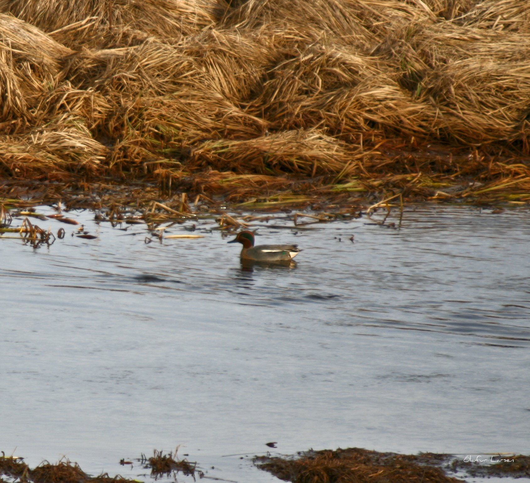 Eurasian Teal Anas crecca, Eyjafjarðarsveit, Iceland